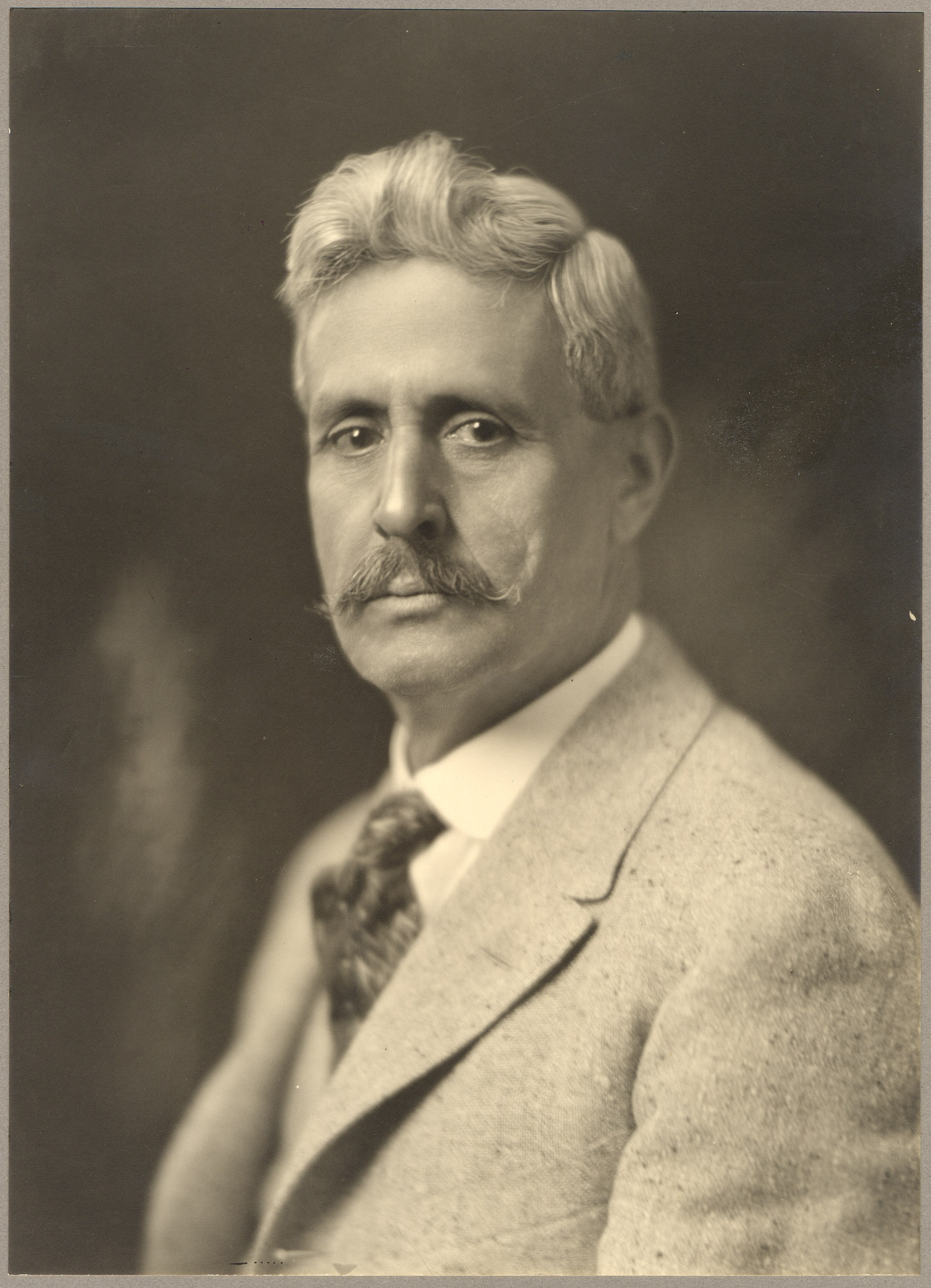 Title: Octaviano A. Larrazolo, who was elected governor of New Mexico in 1918 and served in the U.S. Senate 1928-29 Abstract/medium: 1 photographic print.